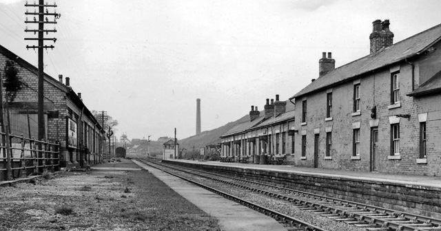 Birdwell (& Hoyland Common) Station (remains). View SW, towards Sheffield; ex-GC Sheffield (Victoria) - Barnsley line. Station closed and passenger services ceased 7/12/53, goods on 2/11/64, but line may have survived until 1970. Does anyone know? 'Hoyland Common' was dropped latterly. (Note the 'Victorian' dwelling houses beside the platform).